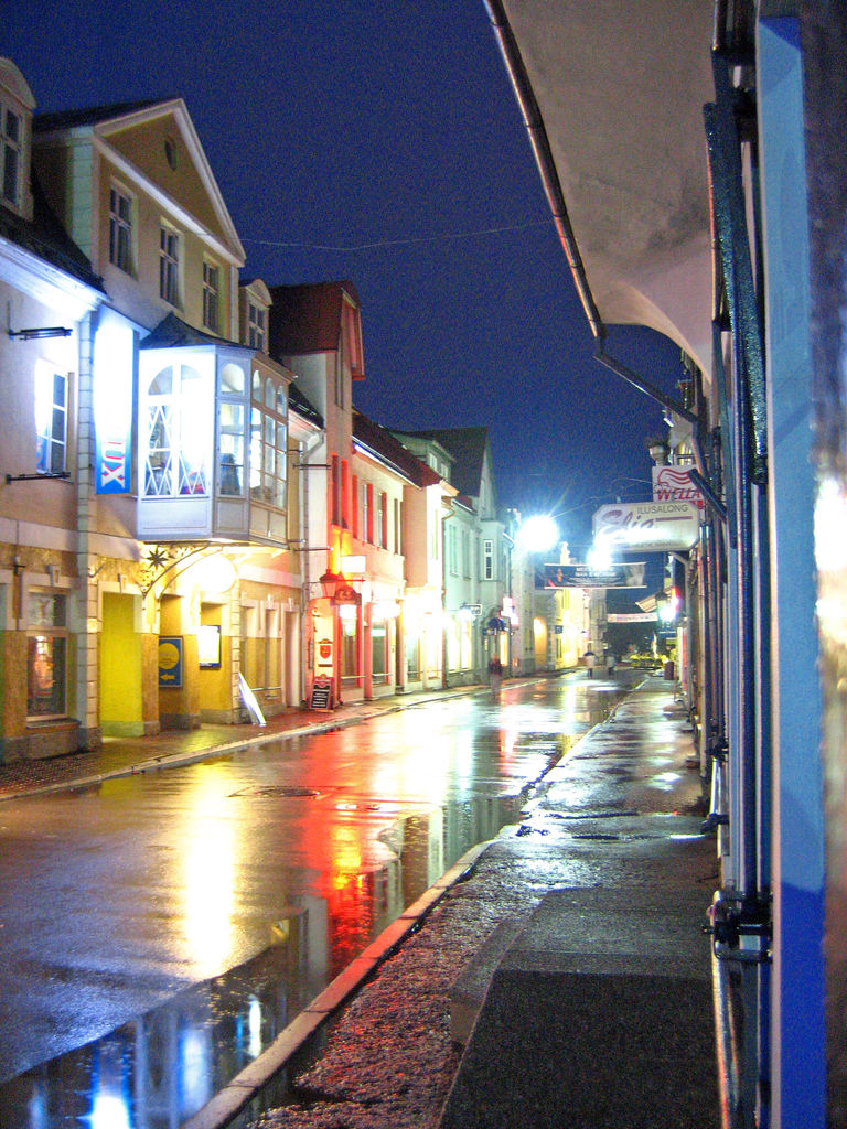 Pärnu, Estonia